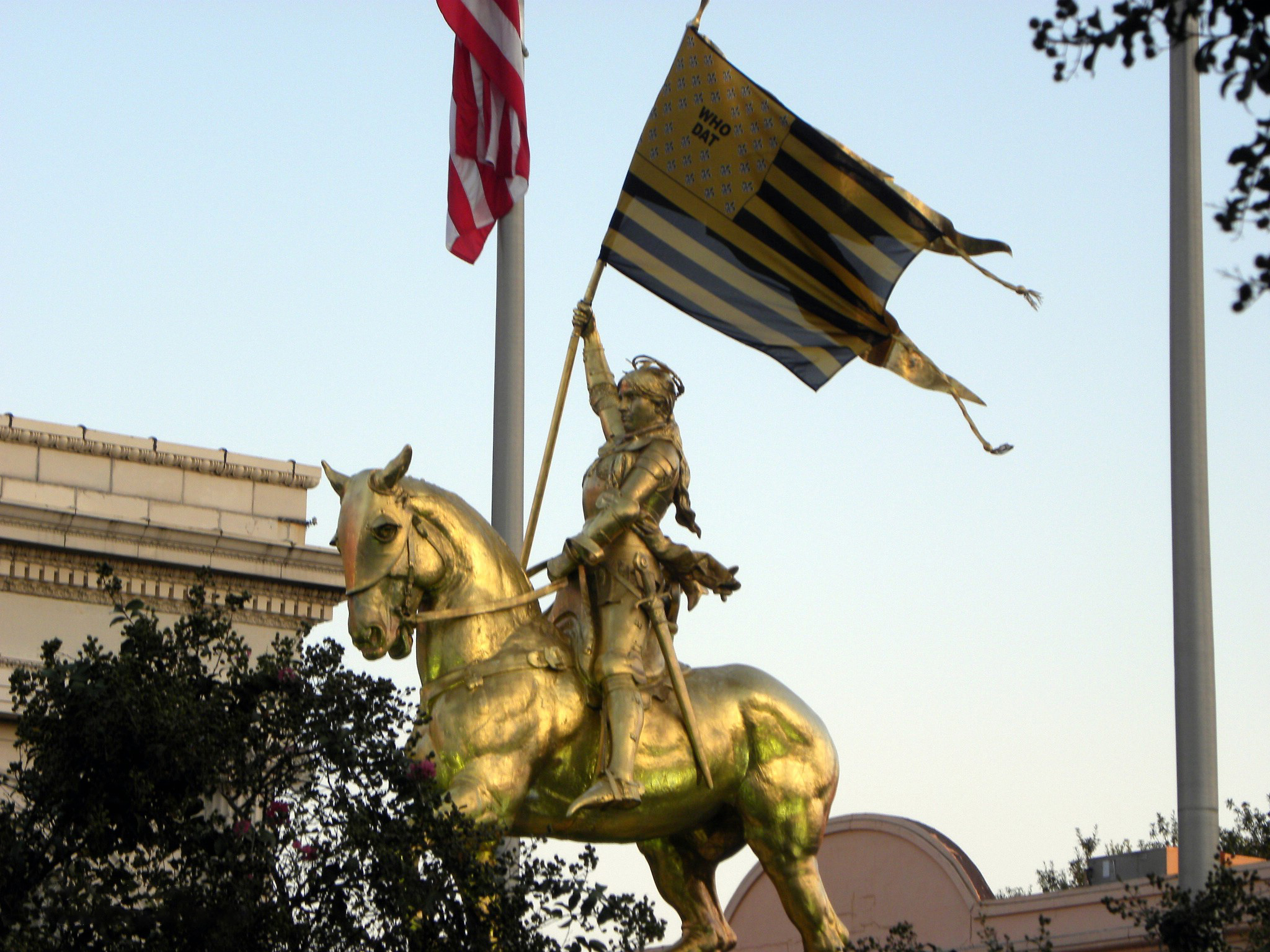 Beautiful golden statue. Joan of Arc on Decatur Street, New Orleans, with a New Orleans Saints football flag to commemorate their Superbowl victory.